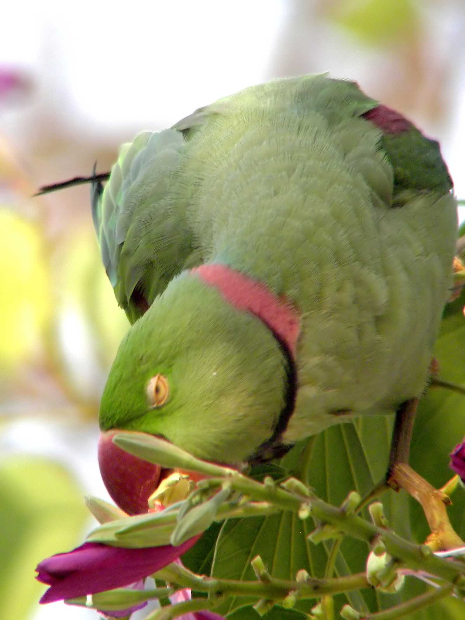 Alexandrine Parakeet at Kowloon Park, Hong Kong.